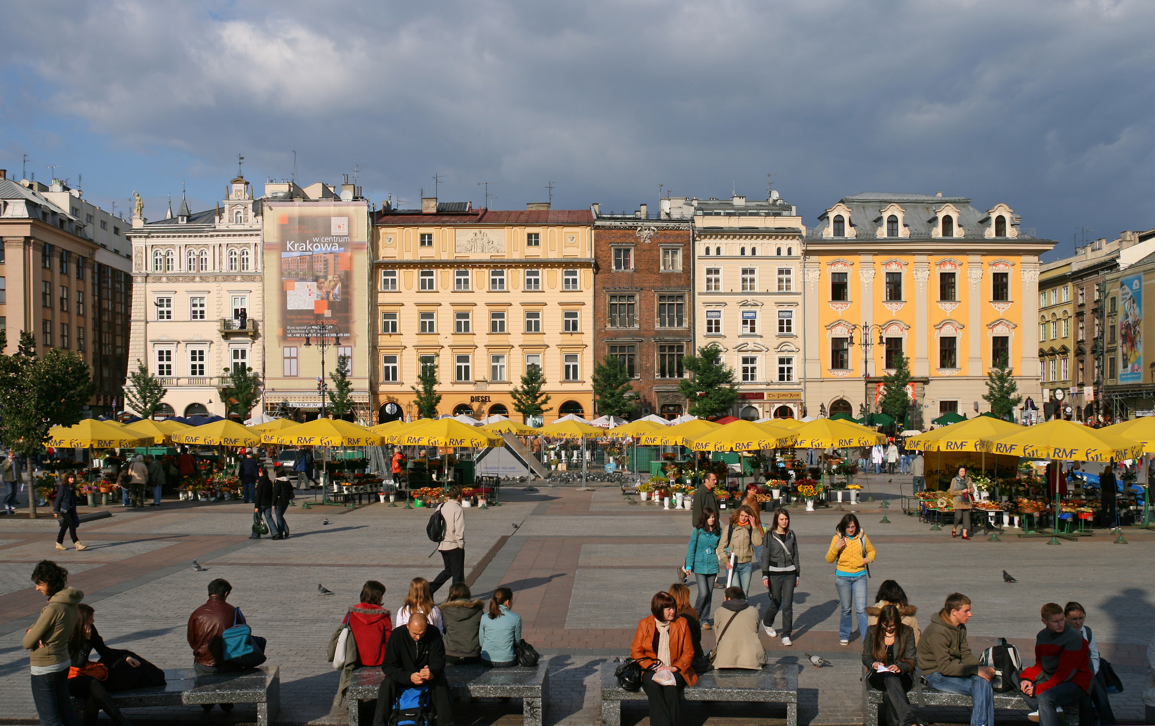 Old Town Market Square in Kraków (Poland).